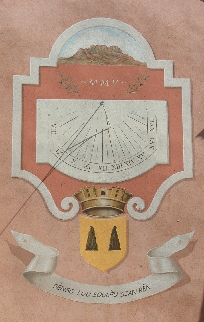 View of Roquebrune sur Argens, France